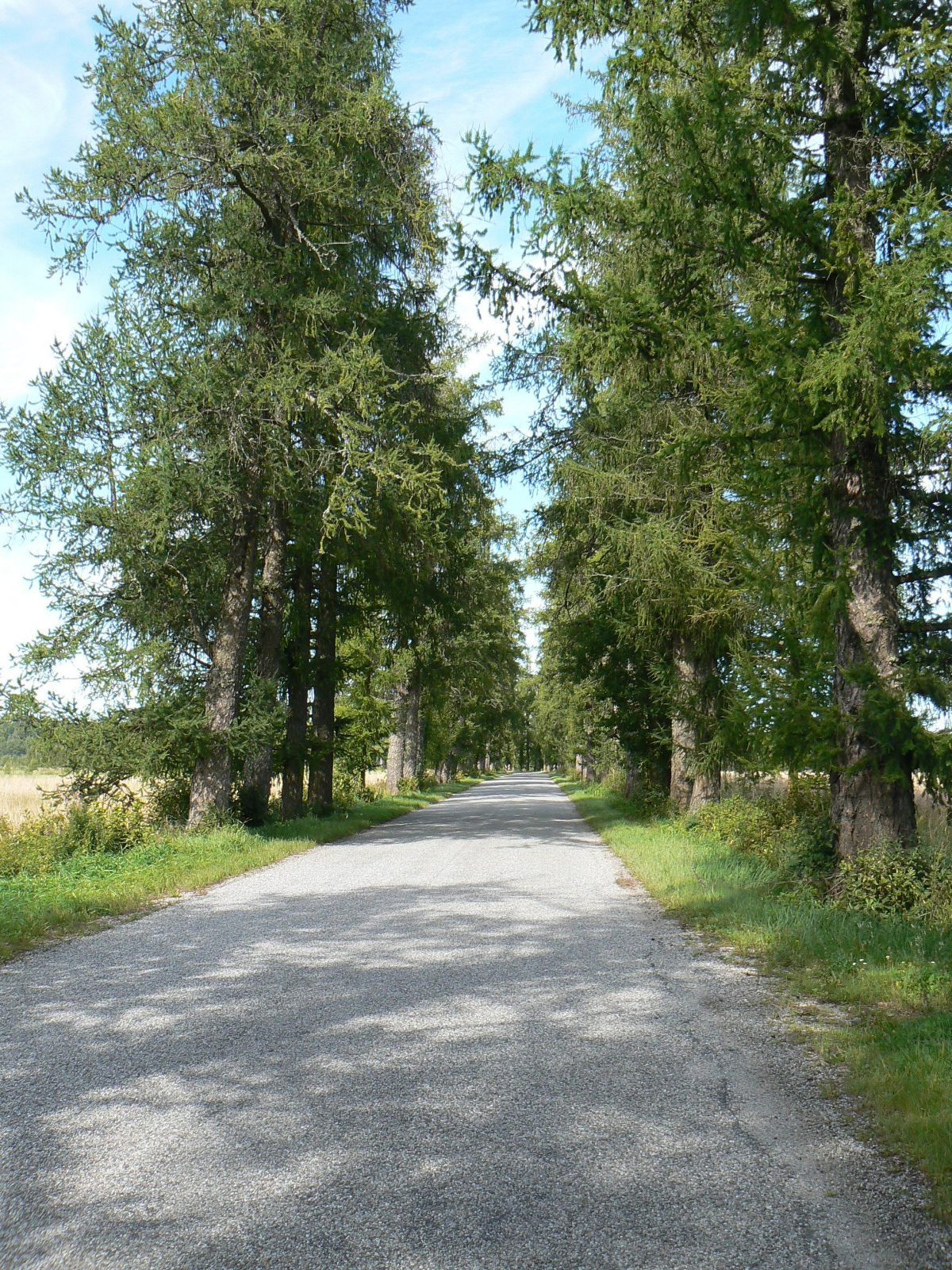 Larch avenue in Vana-Vigala, Estonia